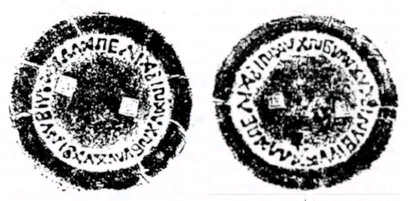 Eastern Han ingot imprints with barbarous Greek inscriptions, excavated in Shaanxi, China. 1st-2nd century CE. A good photograph (Figure 3)